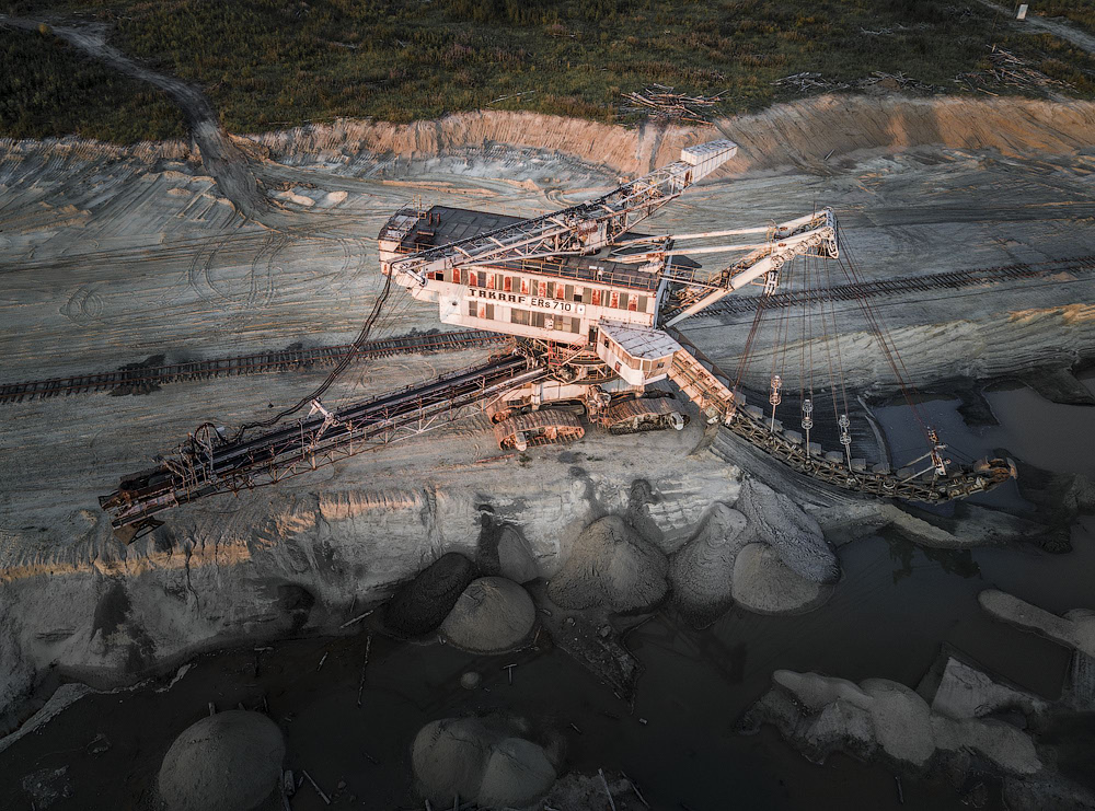 Sand extraction